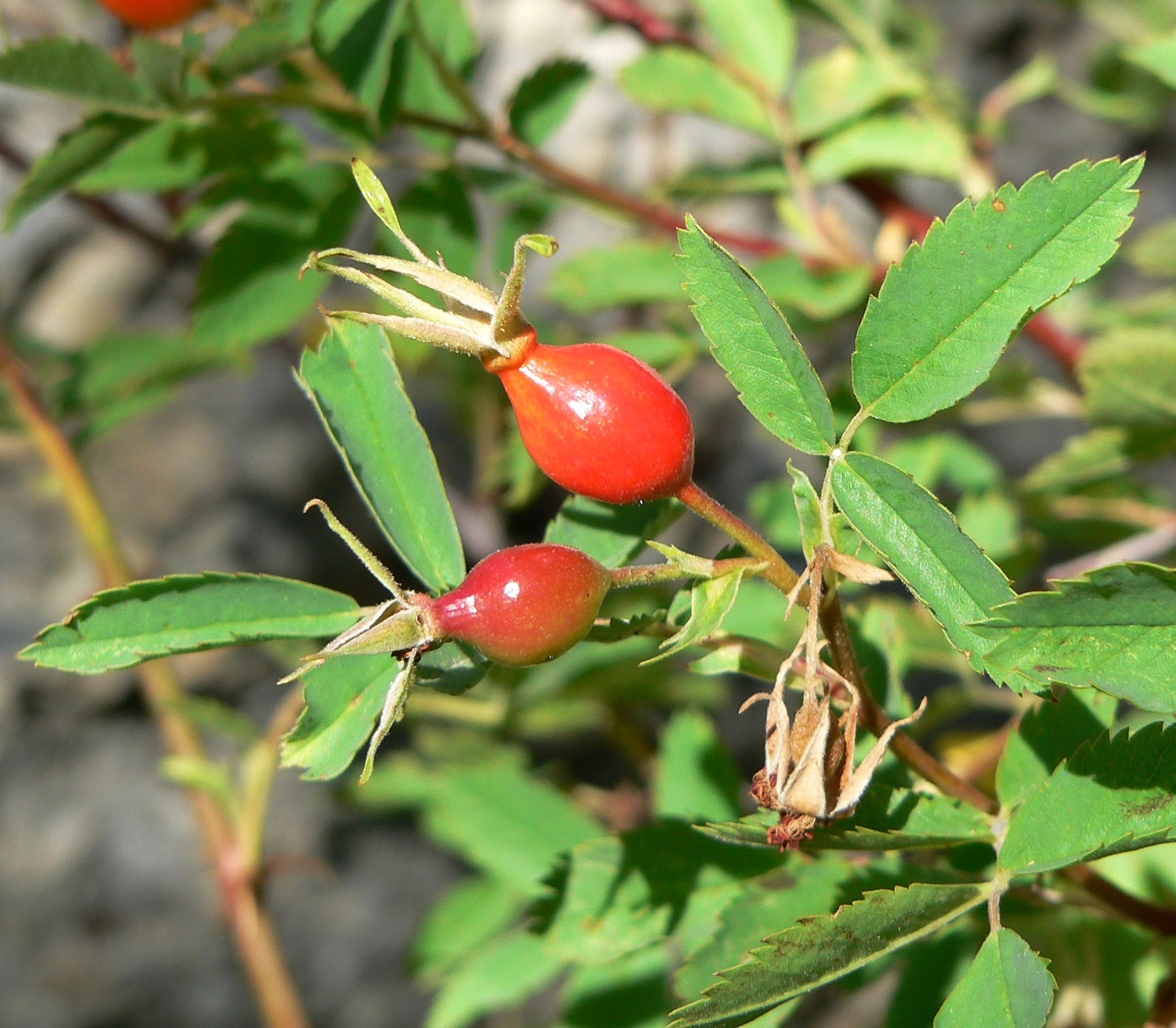 Rosa woodsii in Mount Charleston just below where Kyle Canyon Road crosses over the wash, Kyle Canyon, Spring Mountains, southern Nevada (elev. about 2300 m)